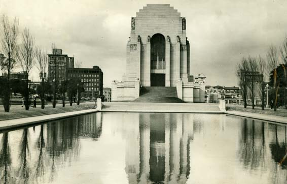 Anzac Memorial, Hyde Park, Sydney Dated: No date Digital ID: 12932-a012-a012X2442000026 Rights: We'd love to hear from you if you use our photos. Many other photos in our collection are available to view and browse on our website using Photo Investigator.